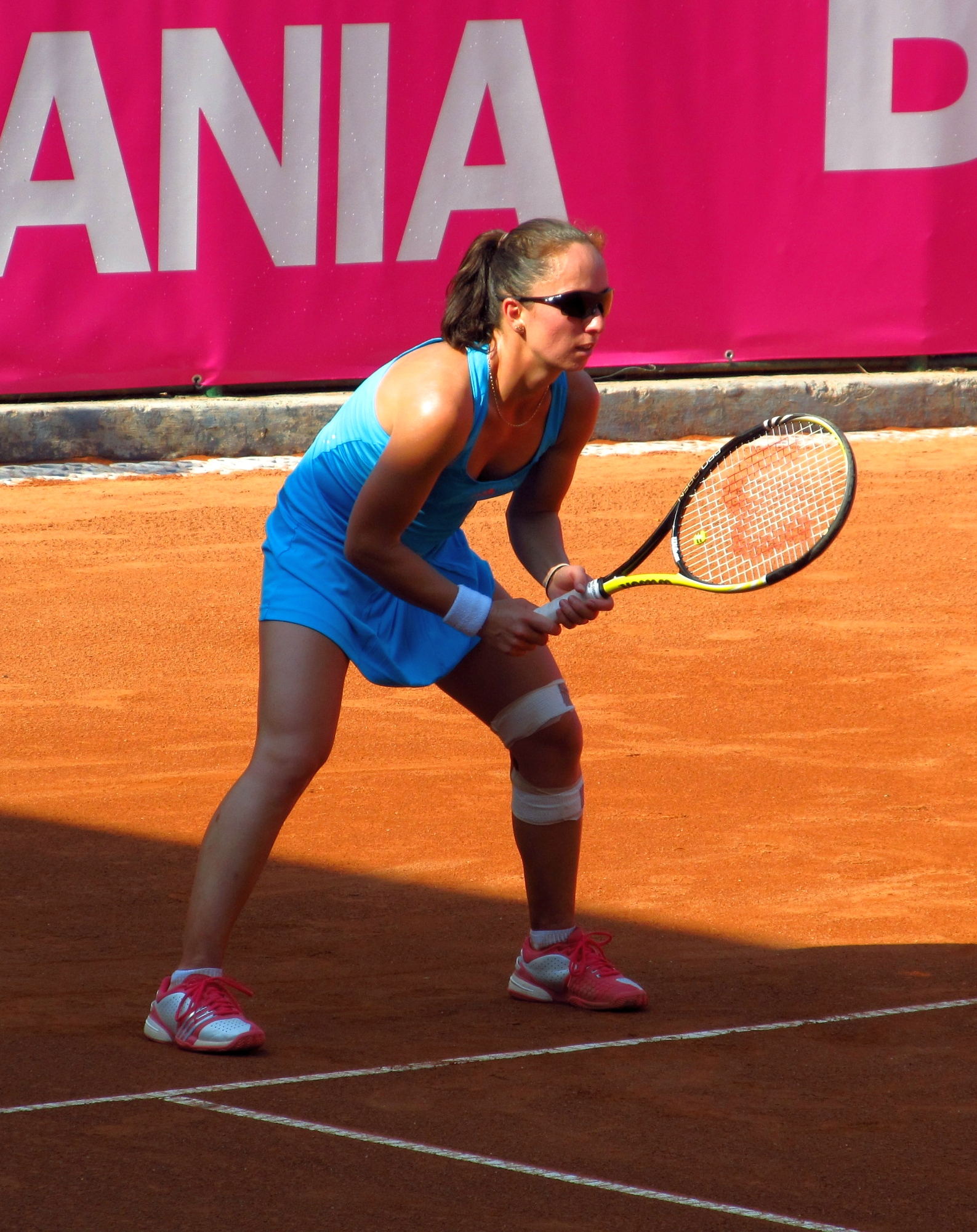 Agnes Szatmari playing at the 2012 BCR Open Romania Ladies first qualifying round